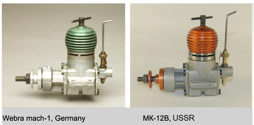 USSR model engine MK-12W, 2,5 ccm